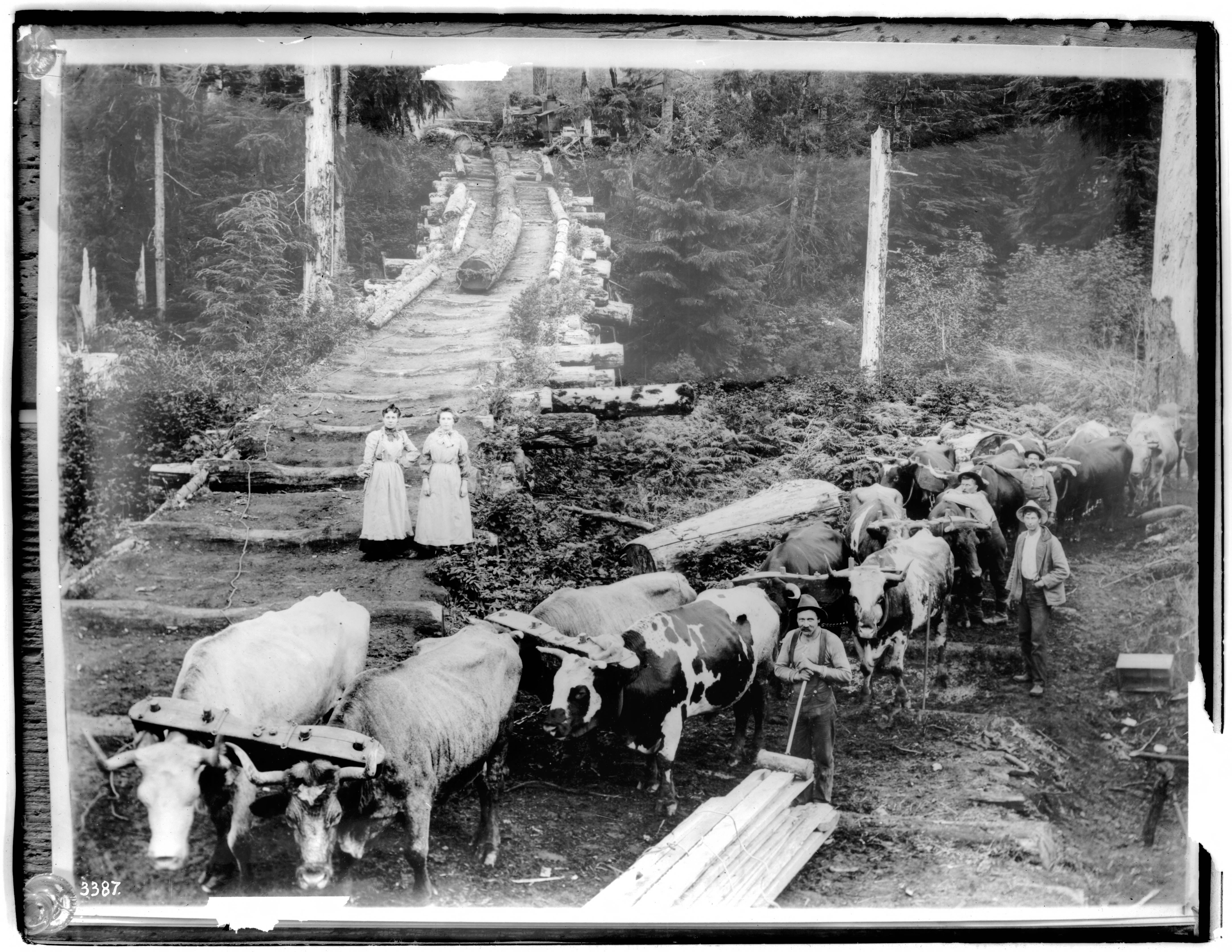 Team of about 16 oxen used for hauling lumber in the forest, 1902 Photograph of a team of about 16 oxen used for hauling lumber in the forest, 1902. At left two women stand on the skid road, an inclined dirt road interrupted with steps of logs which prevent lumber from sliding onto the oxen as they haul lumber down it. Four men stand by the ox team at right. Call number: CHS-3387 Filename: CHS-3387 Coverage date: 1902 Part of collection: California Historical Society Collection, 1860-1960 Format: glass plate negatives Type: images Part of subcollection: Title Insurance and Trust, and C.C. Pierce Photography Collection, 1860-1960 Repository name: USC Libraries Special Collections Accession number: 3387 Microfiche number: 1-108-20 Archival file: chs_Volume77/CHS-3387.tiff Repository address: Doheny Memorial Library, Los Angeles, CA 90089-0189 Subject (adlf): forests Geographic subject (country): USA Format (aacr2): 2 photographs : glass photonegative, photoprint, b&w ; 17 x 22 cm. Rights: Digitally reproduced by the USC Digital Library; From the California Historical Society Collection at the University of Southern California Project: USC Repository Contributing entity: California Historical Society Date created: 1902 Publisher (of the digital version): University of Southern California. Libraries Format (aat): photographic prints; photographs Geographic subject (state): California Legacy record ID: chs-m12161; USC-1-1-1-12314 Access conditions: Send requests to address or e-mail given. Phone (213) 821-2366; fax (213) 740-2343. Subject (file heading): Industry -- Lumbering Subject (lcsh): Lumber; Forests and forestry; Wood products